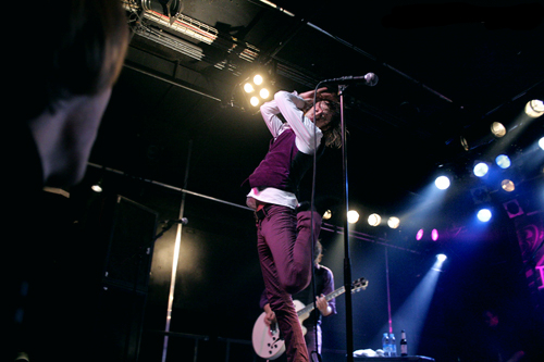 The (International) Noise Conspiracy in Berlin, 2008